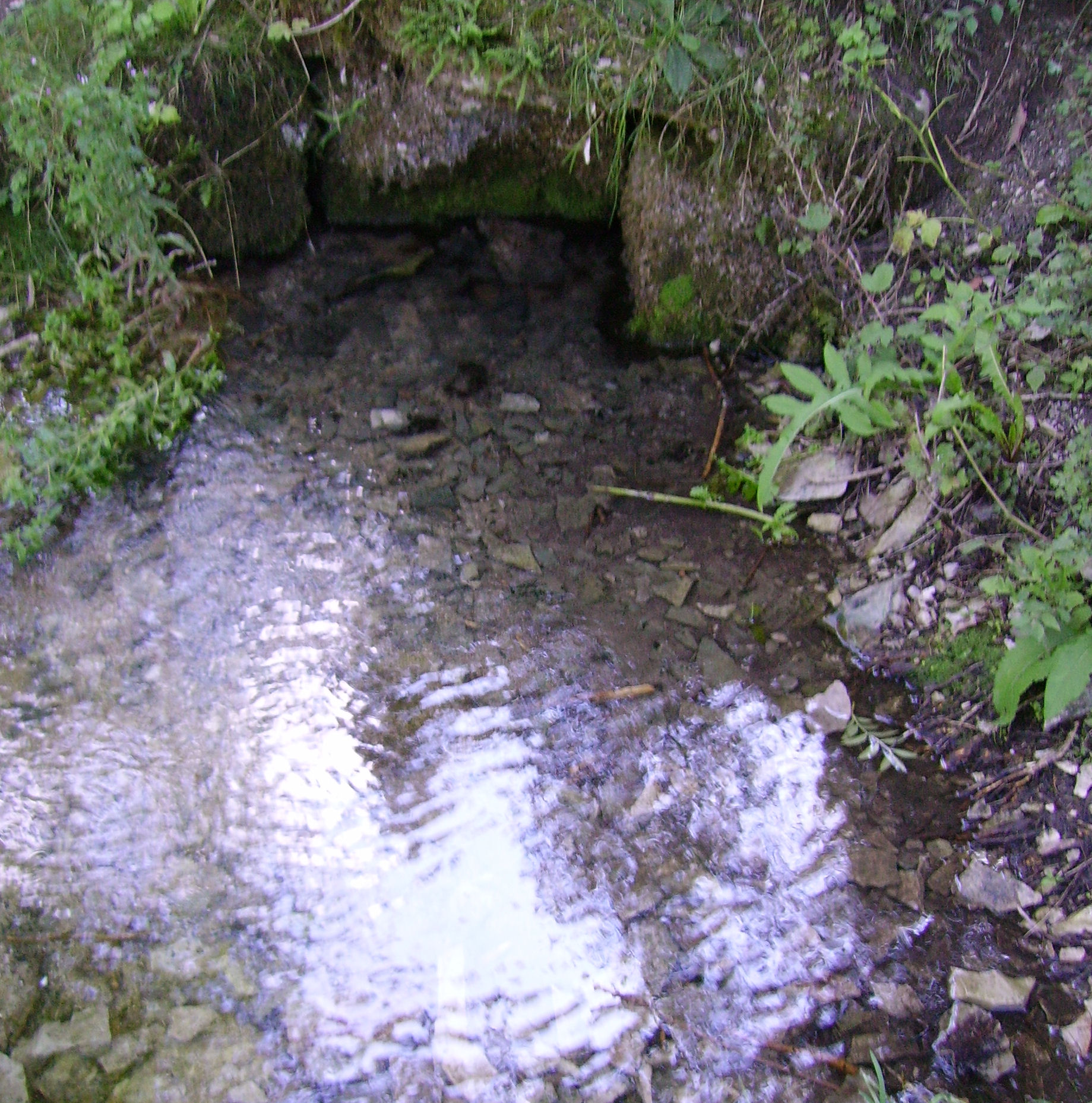 Description: Leinleiter in (Franconia) Source: own photography Date: August 2005 Author: --Immanuel Giel 11:42, 13 September 2005 (UTC) Other versions: none